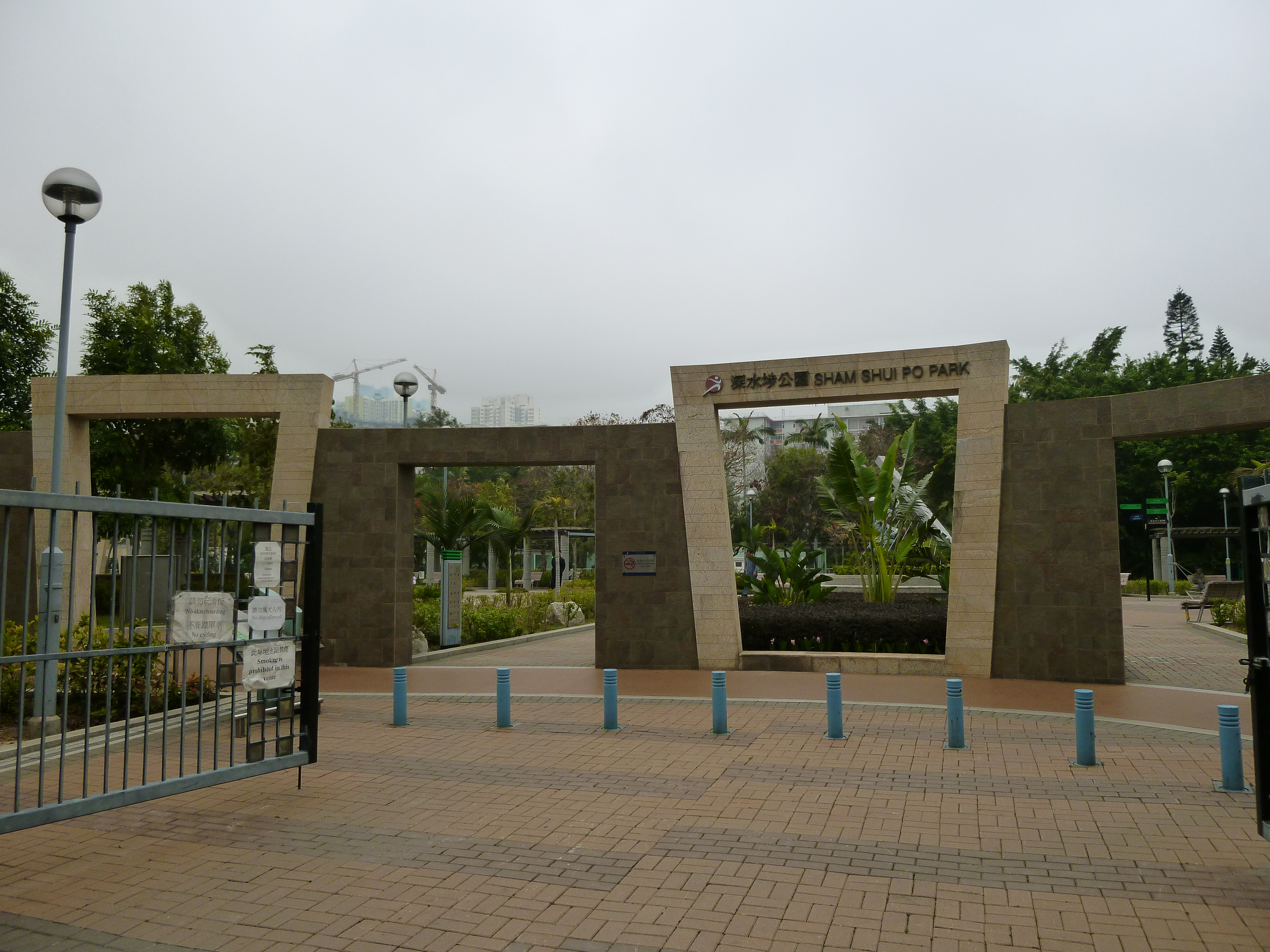 Sham Shui Po Park (Tung Chau Street entrance)